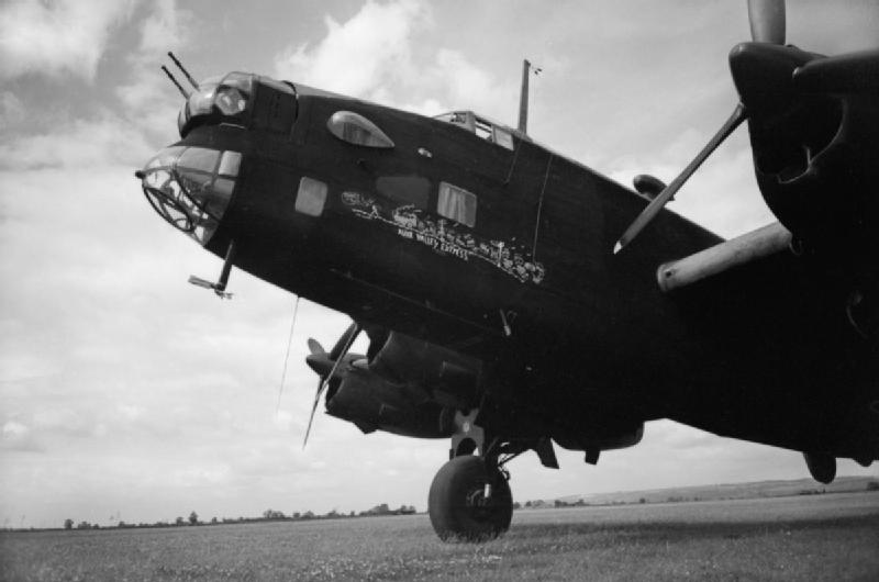 IWM caption : The nose of Handley Page Halifax B Mark II, W7710 'LQ-R' "Ruhr Valley Express", of No. 405 Squadron RCAF, at Pocklington, Yorkshire. An extra truck was added to the nose insignia after each mission. W7710 crashed at Liehuus, Denmark, on the night of 1/2 October 1942 while returning from a raid on Flensburg, Germany. --- (An addition from Wikimedia-Commons-User̠ Soenke Rahn from Flensburg: Liehuus? It must be "Niehuus" on the border. But Niehuus ist part of Germany.)